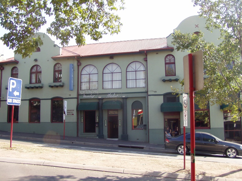 The Greensborough Hotel is aesthetically significant as an unusual example of the inter-War Spanish Mission style hotel in the suburb of Greensborough.[17] It is one of the few early Twentieth Century buildings remaining in the area and has become an attractive landmark in the commercial centre of Greensborough. Greensborough Hotel is located on the corner of Main Street and The Circuit, Greensborough.